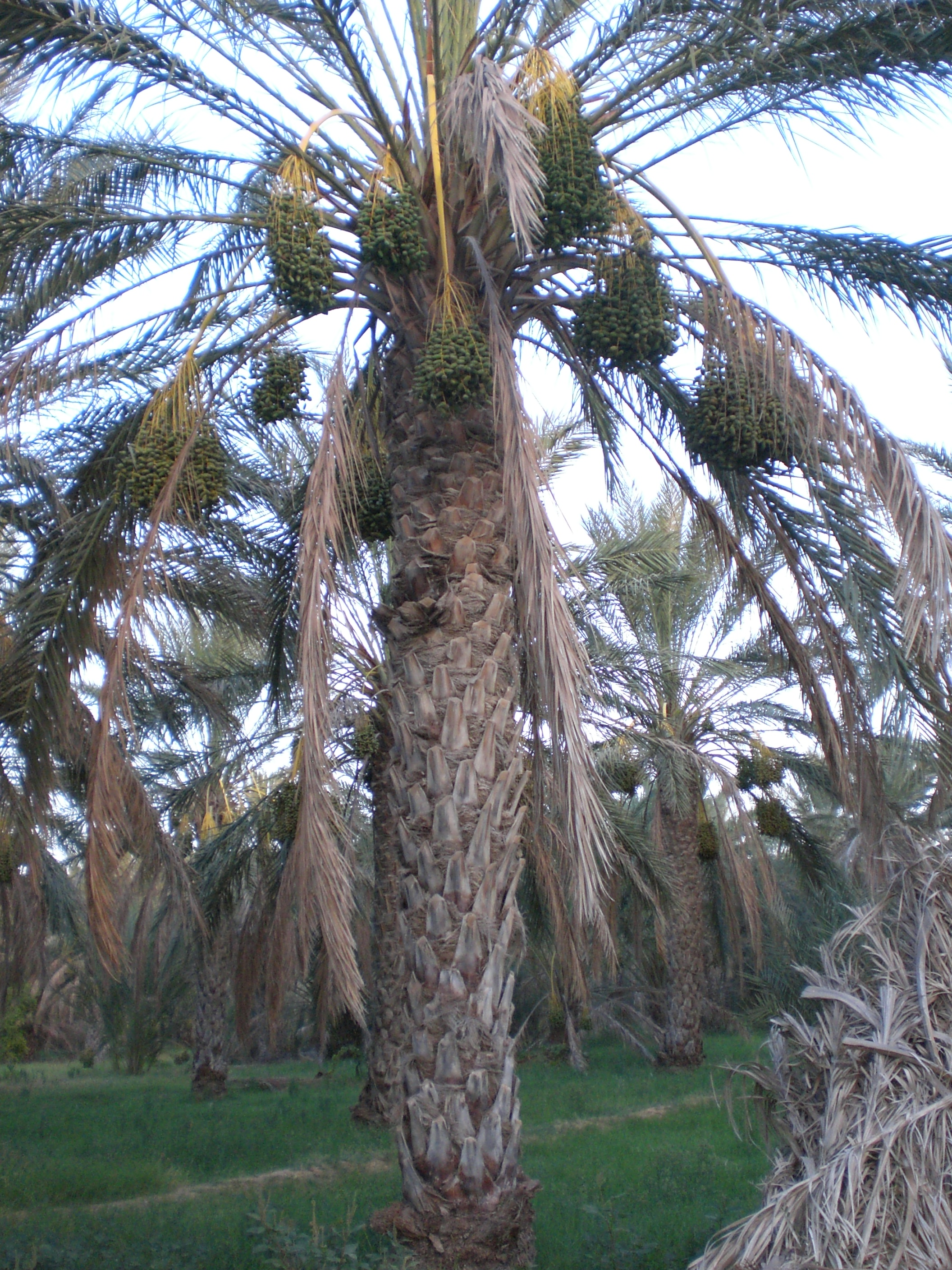 Palm-tree called Deglet from Tunisia